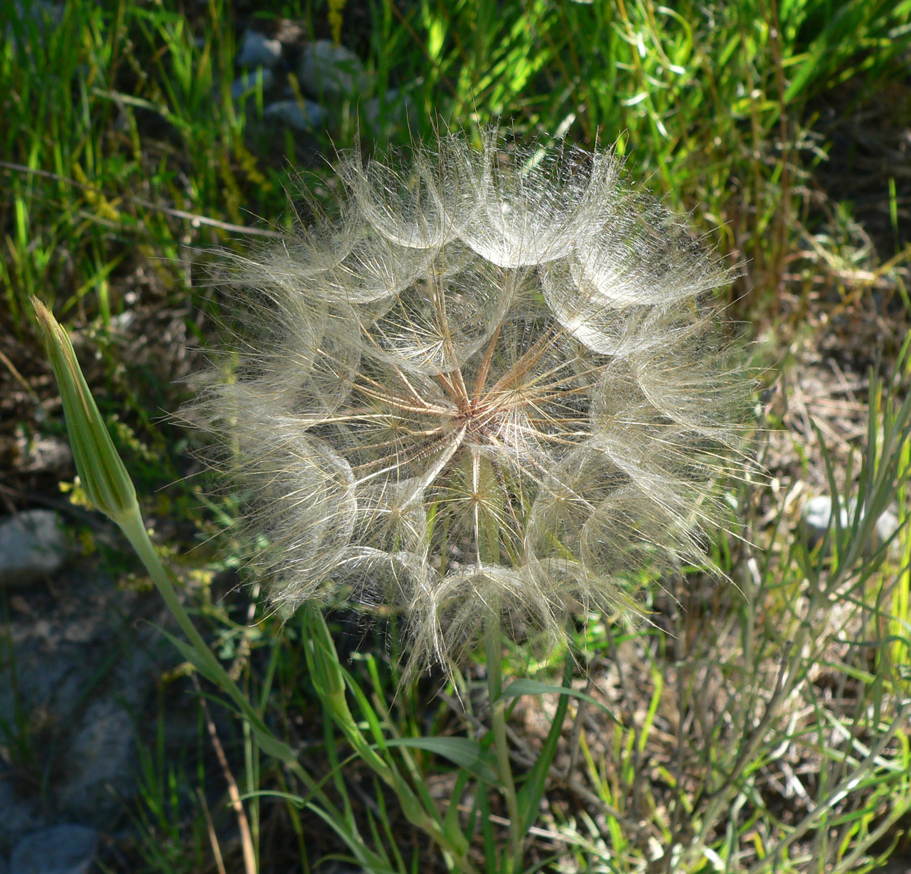 Tragopogon dubius near the junction of 157 and 158, Kyle Canyon, Spring Mountains, southern Nevada (elev. about 2100 m)